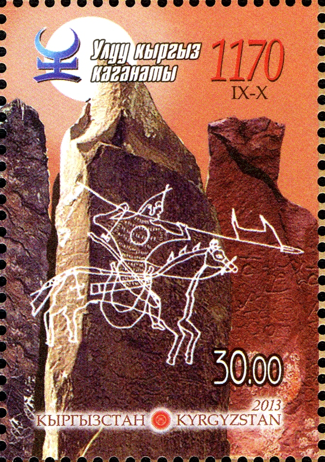 Stamps of Kyrgyzstan, 2013